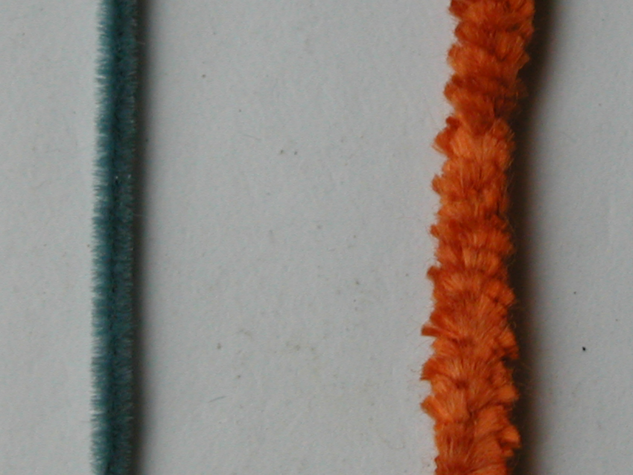 Left : flocked yarn. Right : chenille